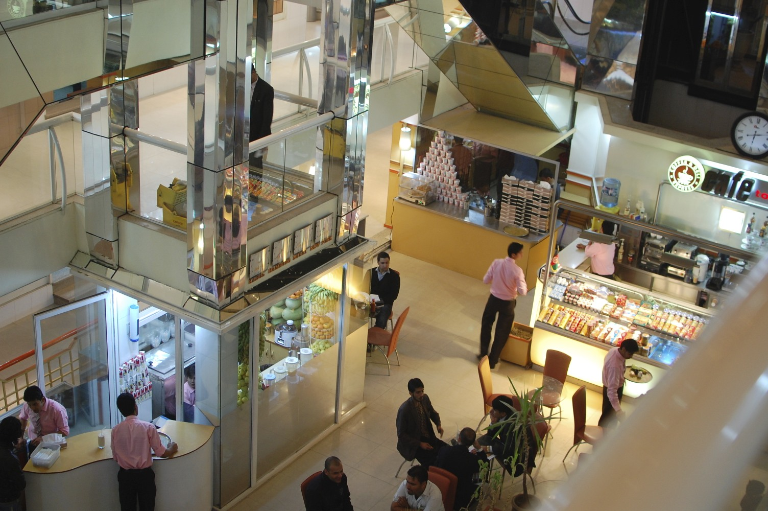 This little mall was one of the nicer places in the whole city.